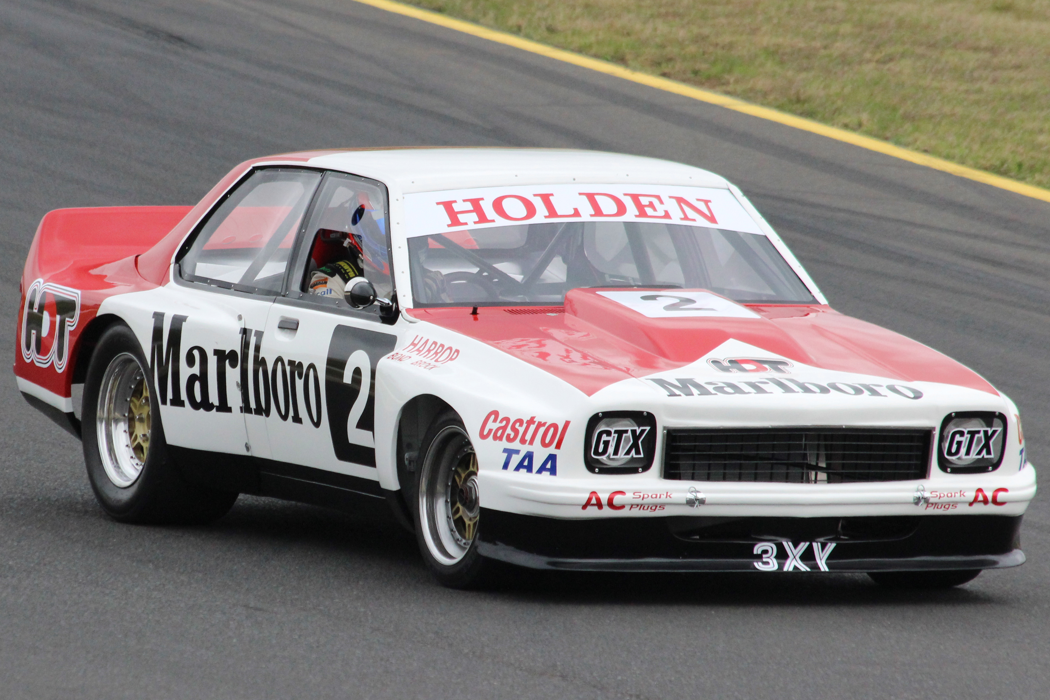 The Holden LH Torana Sports Sedan built by the Holden Dealer Team, pictured at the 2015 Muscle Car Masters.